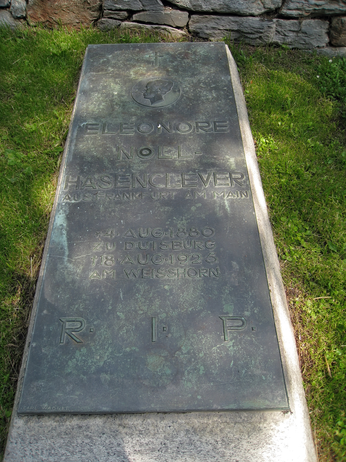 Grabstein Eleonore Noll-Hasenclever in Zermatt